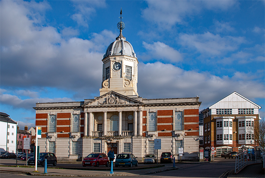 Harbour Board Office, Town Quay, Southampton.